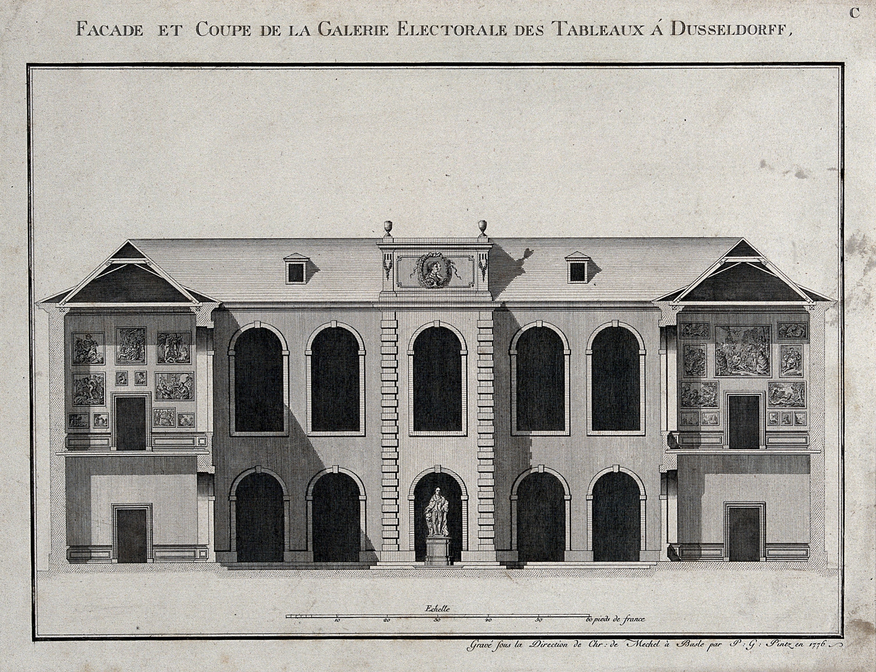 The electoral picture gallery at Düsseldorf: fącade elevation and cross-section of the wings. Engraving by P.G. Pintz, 1776